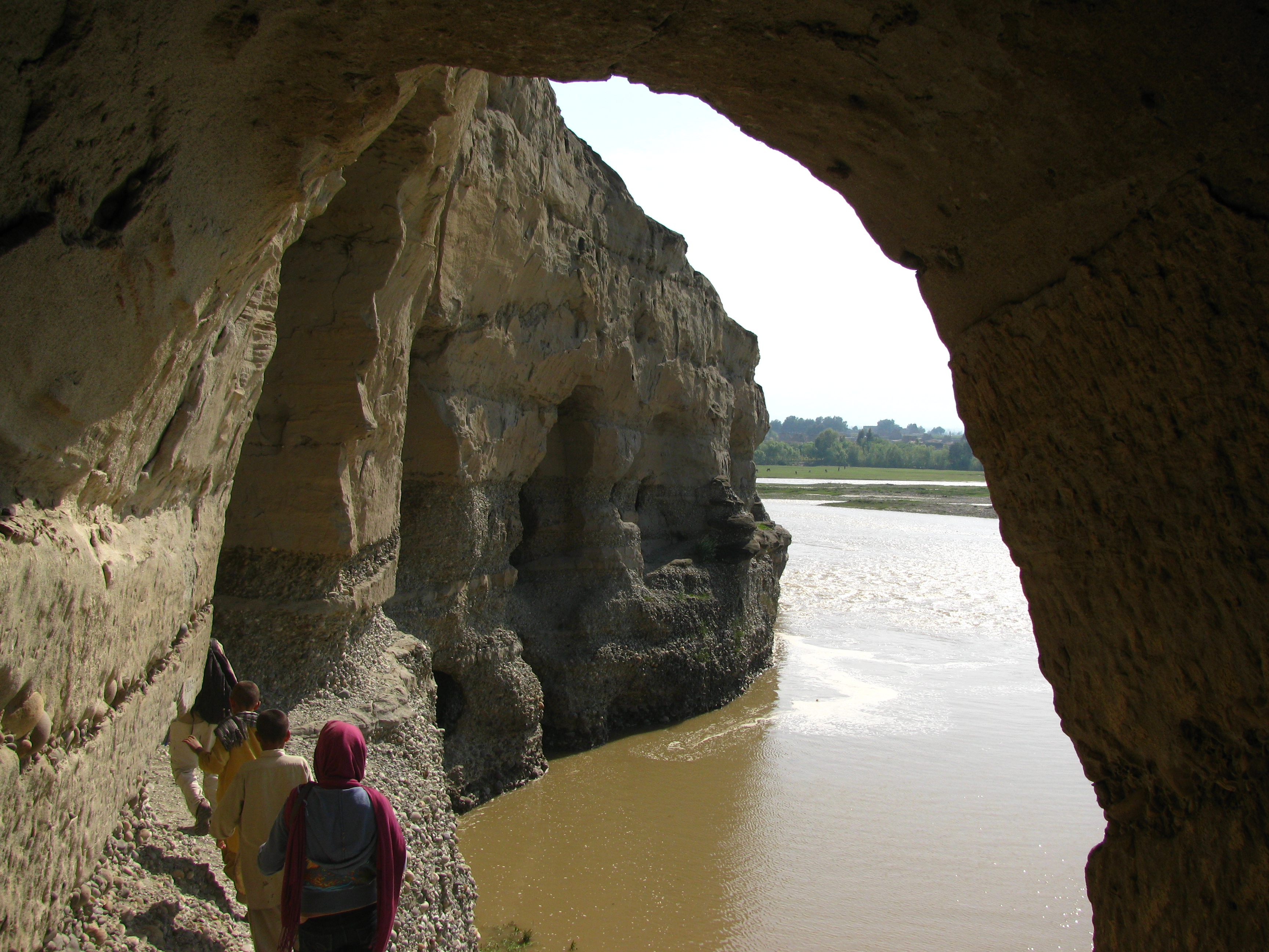 The following is the author's description of the photograph quoted directly from the photograph's Flickr page. "A view coming out of one of the caves of the Kabul River. Muddy and swollen, it's [sic] spring. ---- After visiting the village we went to the 'Buddhist Caves', which have been carved into a set of cliffs on the north side of the Kabul river. Interviews with locals yielded few results, they know virtually nothing about the pre-Islamic history of the country. These caves were part of a Buddhist monastery, and are significant because they were the home of part of the Edicts of Ashoka from around the year 272 BC probably put there by Devanampiya Tissa. The inscriptions are now in the Kabul Museum collection. The rest of the caves are completely looted. The only remains are the caves themselves, classic Buddhist 'hand' rock inscriptions, and the occasional remnants of stuccos or statues. In the year 629 the Chinese scholar Xuanzang visited the monastaries here and reported a 300 foot tall stupa. I'm not sure which stupa he is referring to of the ~37 in the area, but there is one above the caves which appears to be fairly elaborate. These caves also served in various wars over the years housing mujahadeen due to it's [sic] good lookout position and ready retreat routes. We found bullets embedded in various places. More information: "